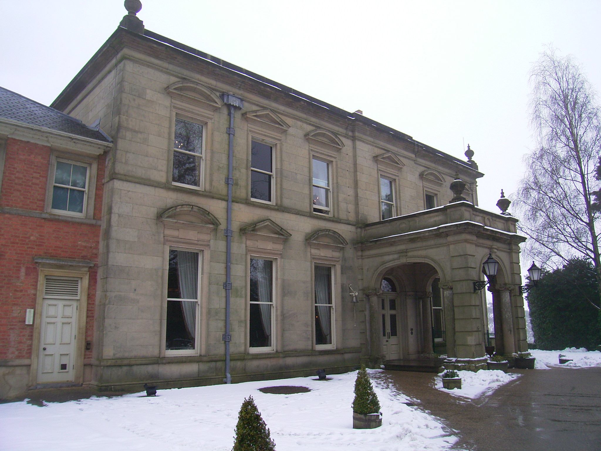 Kilworth House Hotel, near Lutterworth